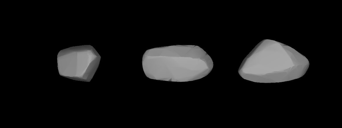 A three-dimensional model of 1495 Helsinki that was computed using light curve inversion techniques.